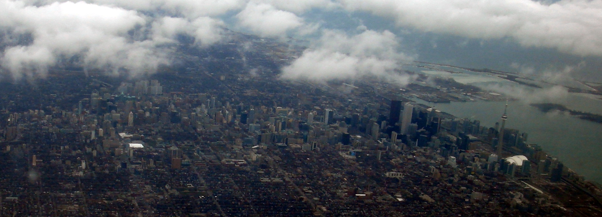 Downtown Toronto, Canada, aerial photo